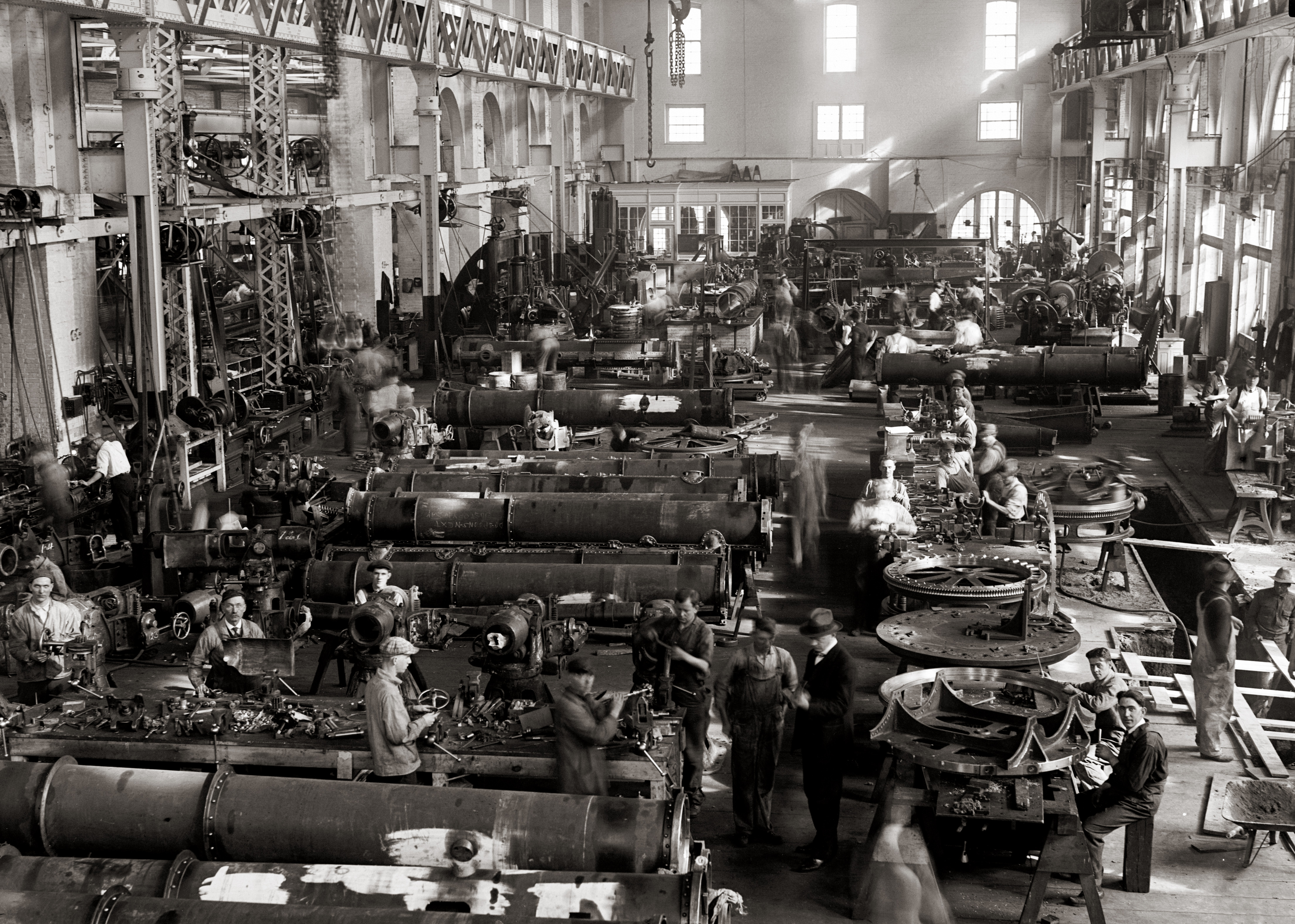 Torpedo shop at the Navy Yard in Washington, D.C. The Navy Yard is a National Historic Landmark.